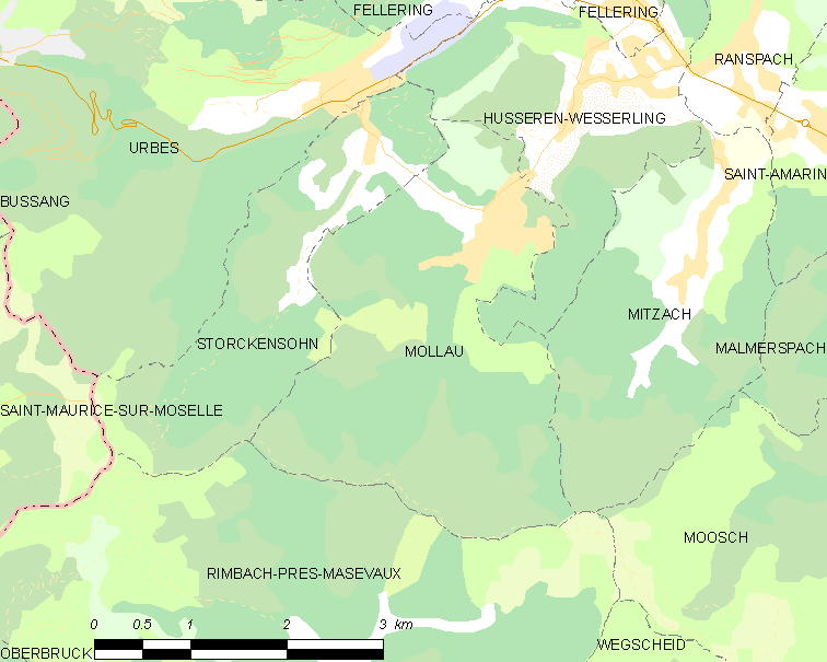 Map of French municipality